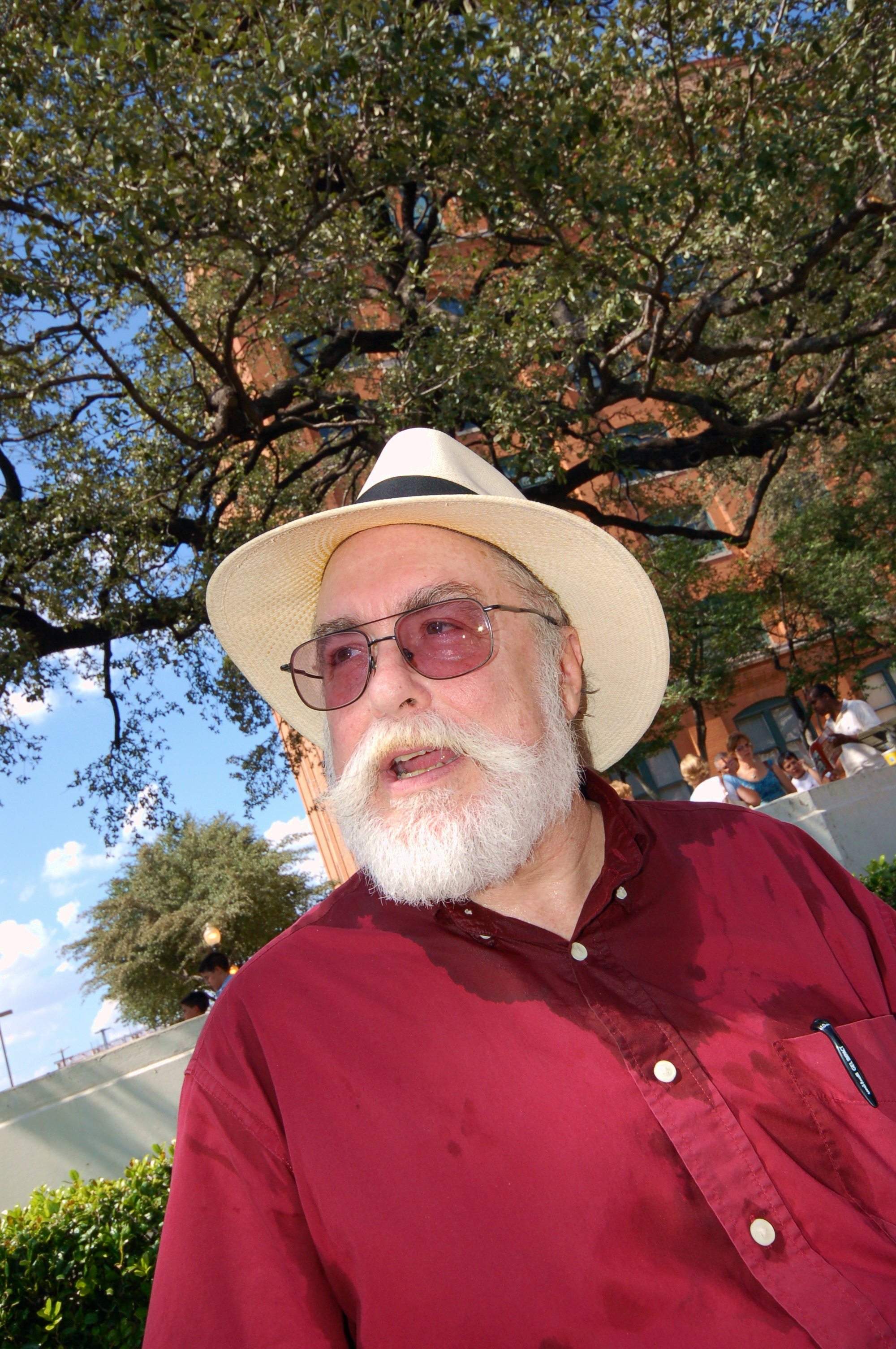 Photo of Jim Marrs